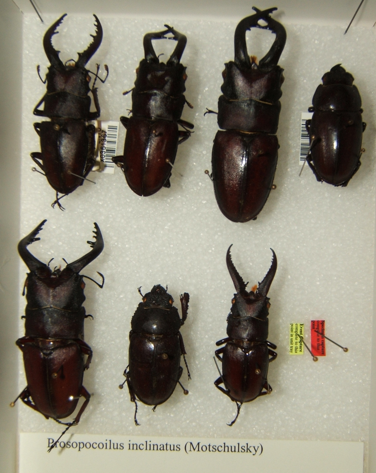 Prosopocoilus inclinatus adult variation taken by Shawn Hanrahan at the Texas A&M University Insect Collection in College Station, Texas.